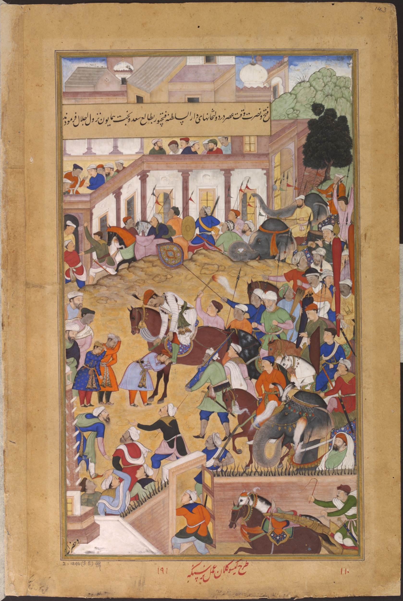 Akbar receiving his sons at Fathpur, 1573 after the victorious campaign in Gujarat from the Akbarnama